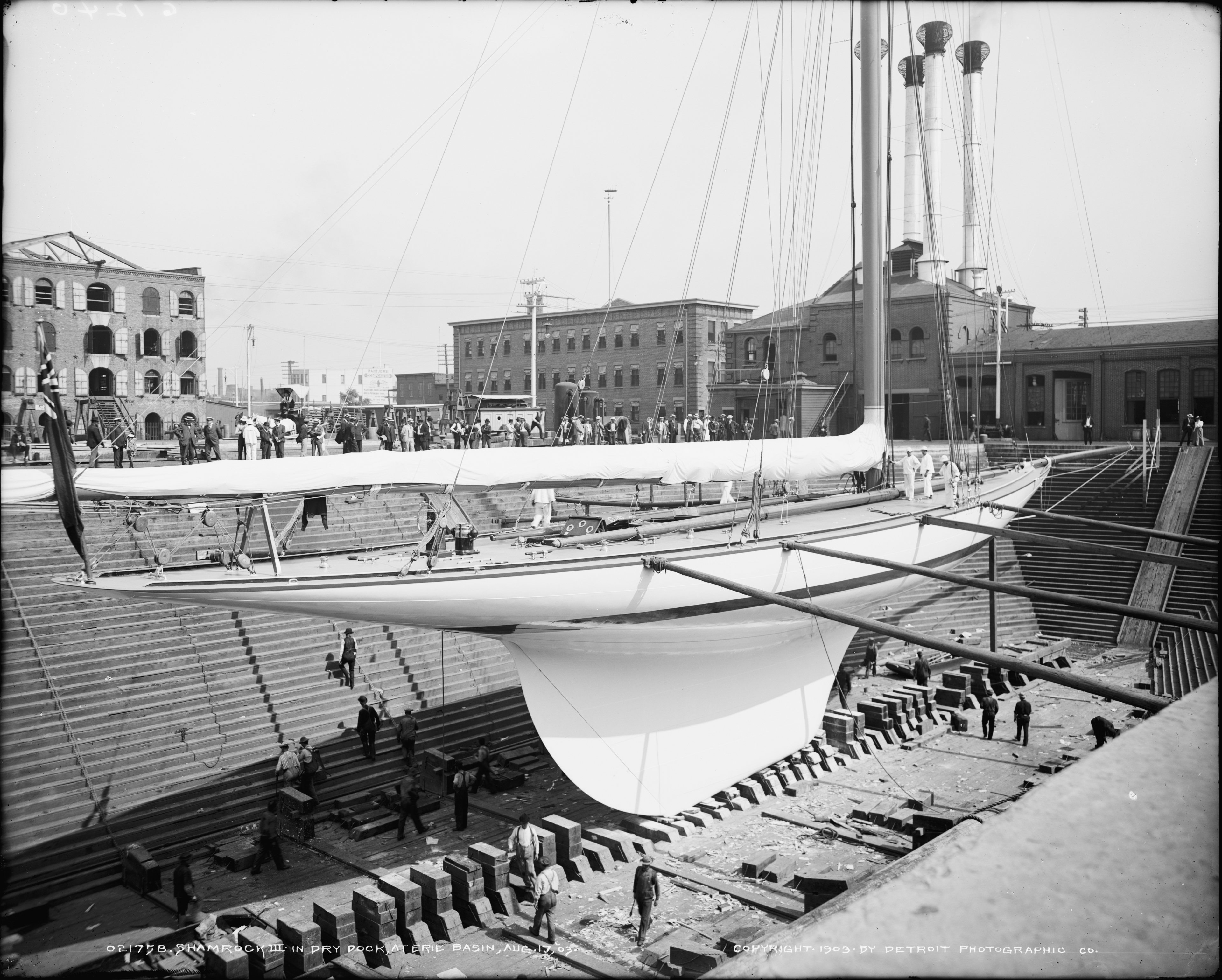 The sailing yacht Shamrock III in drydock at Erie Basin (August 17th, 1903). Shamrock III was commissioned by Sir Thomas Lipton and designed by William Fife to challenge the New York Yacht Club on behalf of the Royal Ulster Yacht Club for the America's Cup in 1903. Shamrock III lost 3:0 to its opponent Reliance, designed by Nathanael Greene Herreshoff.